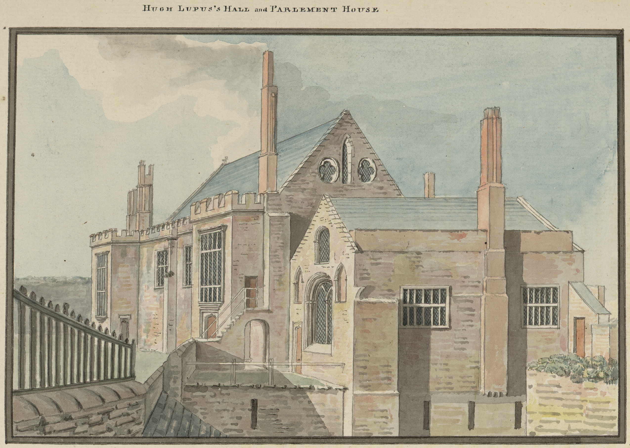 An image from a set of 8 extra-illustrated volumes of A tour in Wales by Thomas Pennant (1726-1798) that chronicle the three journeys he made through Wales between 1773 and 1776. These volumes are unique because they were compiled for Pennant's own library at Downing. This edition was produced in 1781. The volumes include a number of original drawings by Moses Griffiths, Ingleby and other well known artists of the period. Thomas Pennant (1726-1798)